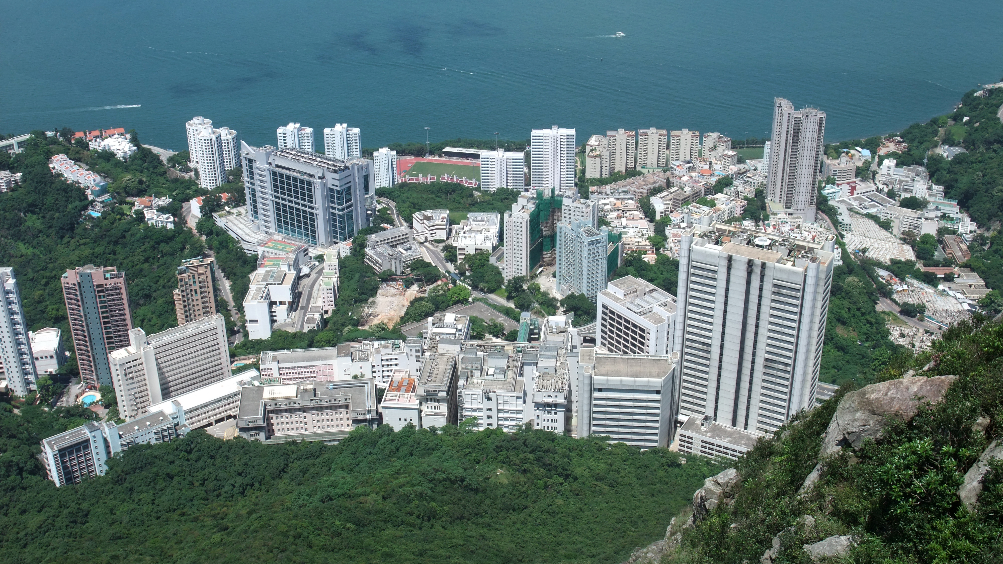 Photo of Sandy Bay